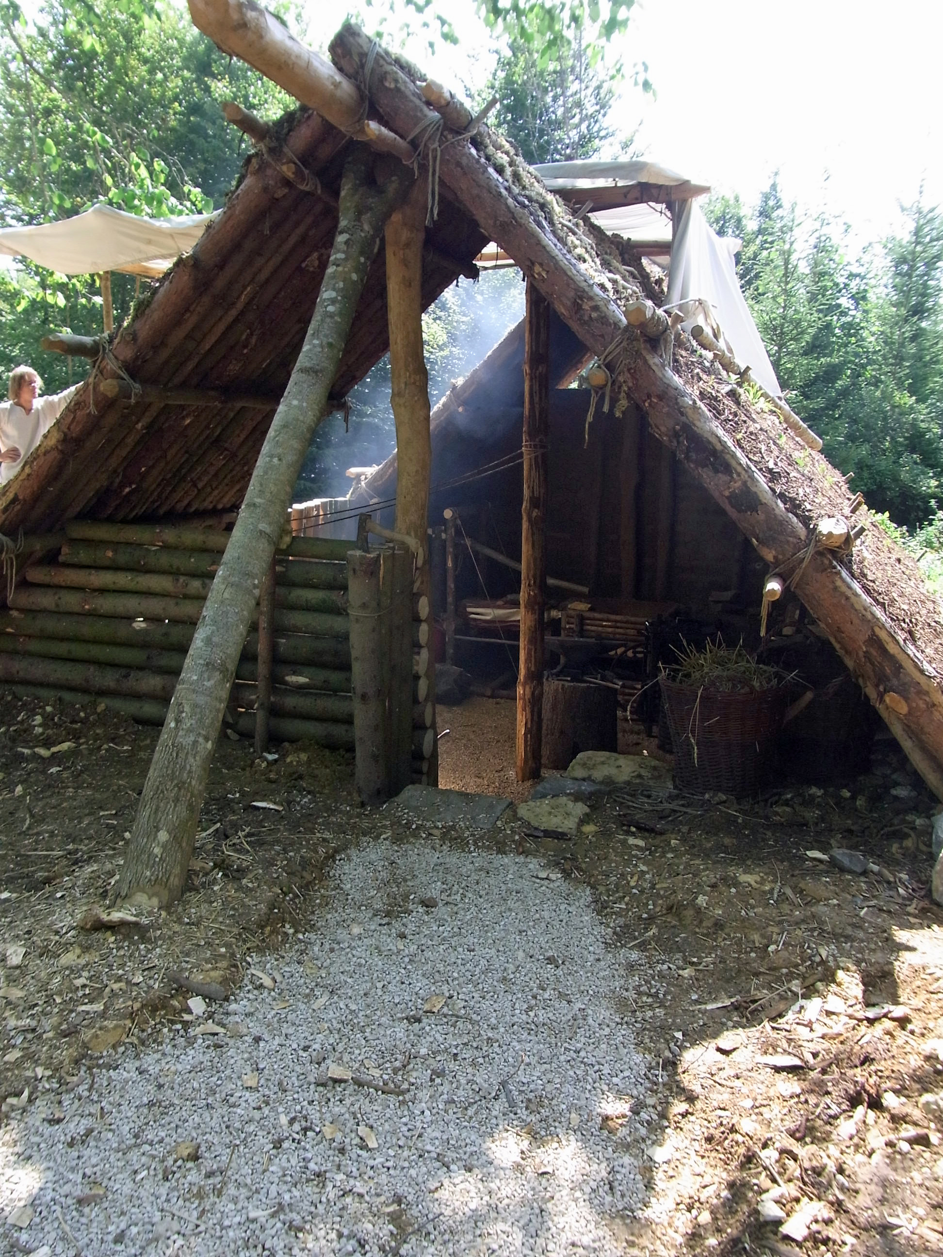 The blacksmith's hut